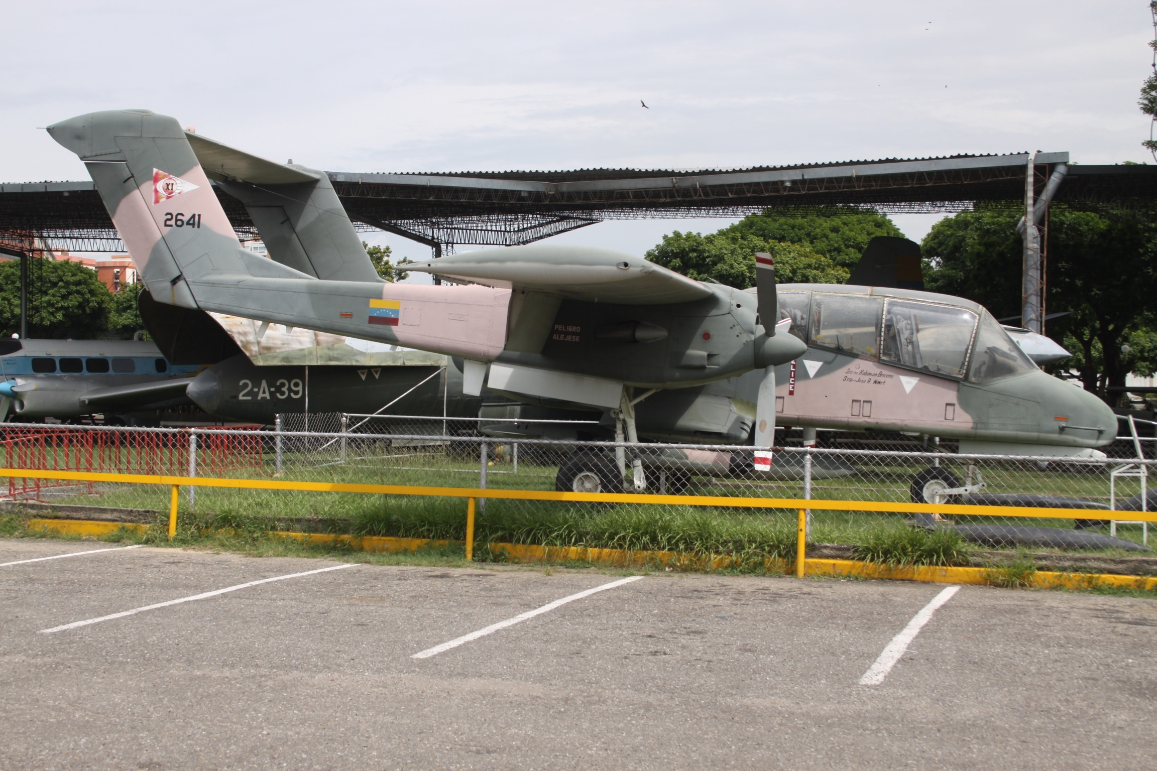 At Museo Aeronáutico de Maracay